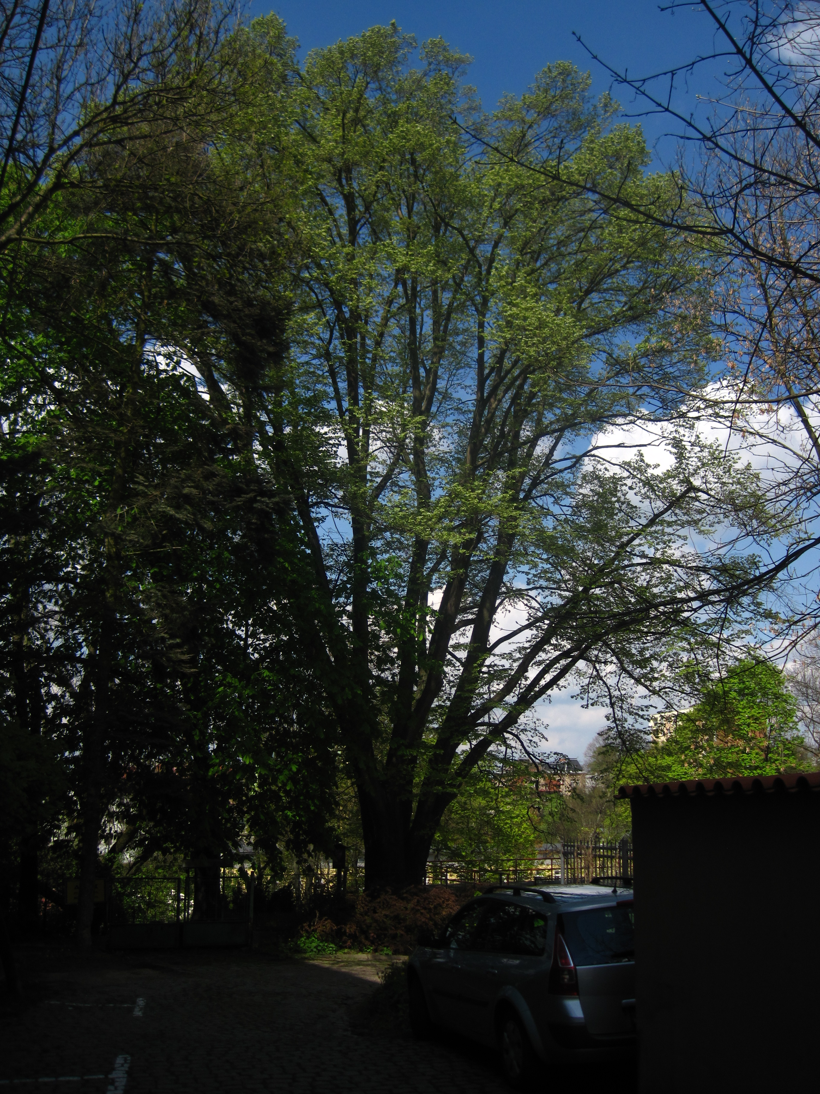 Židovská lípa rostoucí nedaleko Krajské vědecké knihovny v Liberci / The Jewish Lime (nature monument) in Liberec